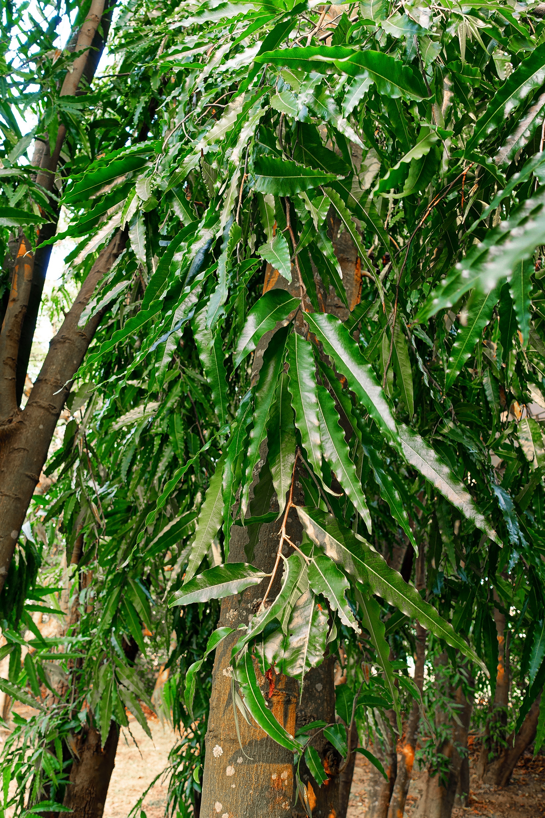 Polyalthia longifolia (Taiwan)